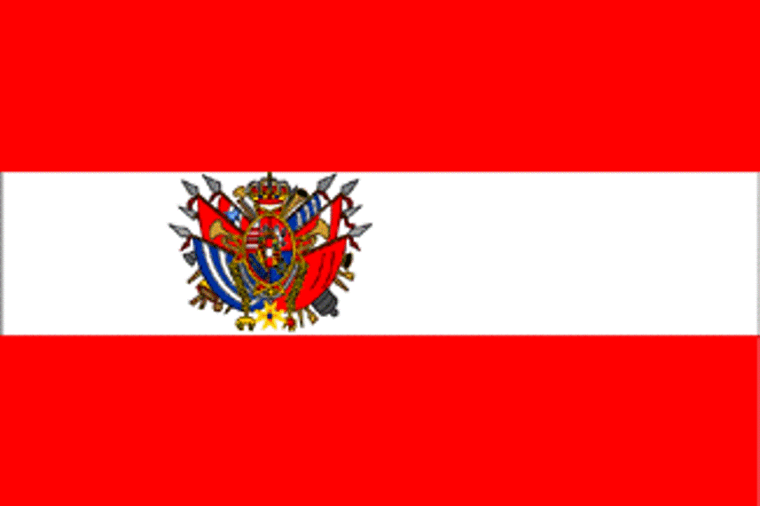 Flag of the Austria-ruled Duchy of Milan (1765-1796). The coat of arms was the version used by Austrian Monarchs as Kings of Tuscany. The ducal arms of Milan aren't shown for this reason.